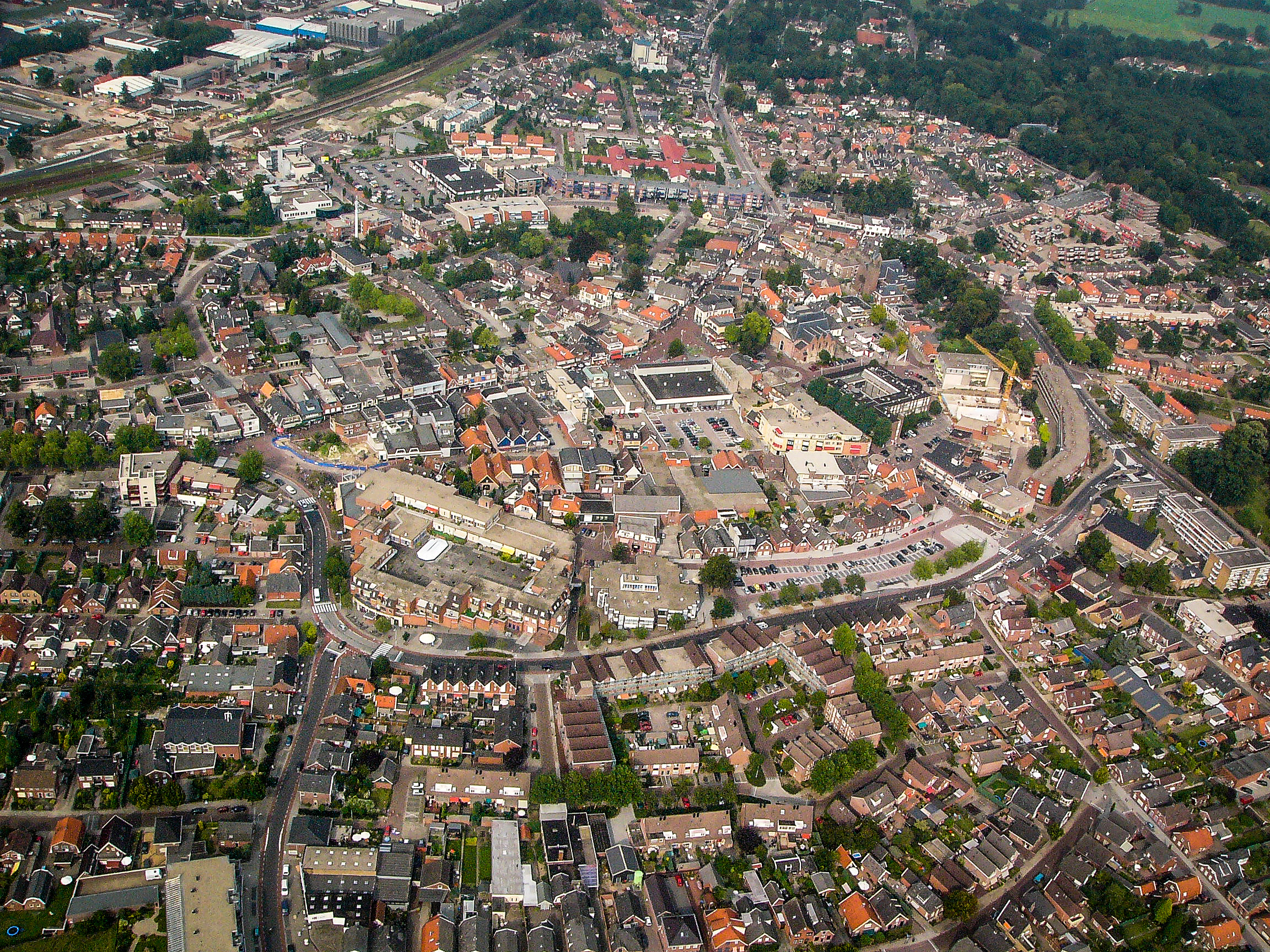 Luchtfoto Rijssen editie 20050907See also (not uploaded to Commons yet - if you do, please remove links)